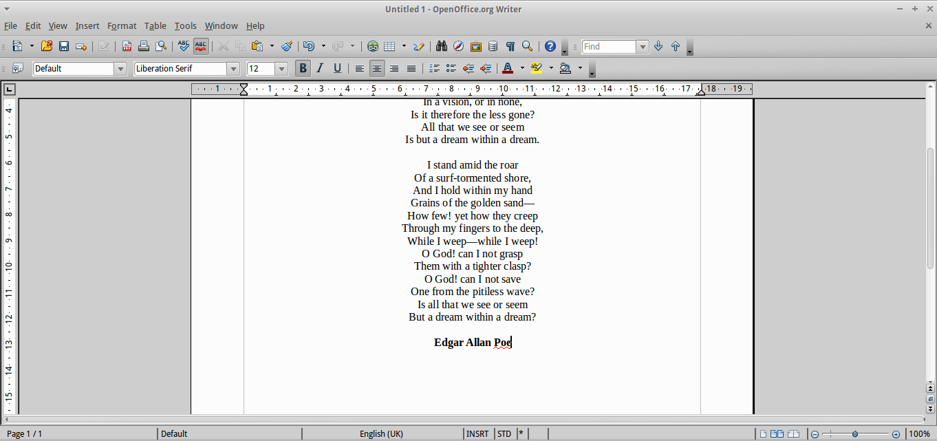 Apache OpenOffice Writer 3.4.1 in Xubuntu 12.04.1.Text is A Dream Within a Dream by Edgar Allan Poe.